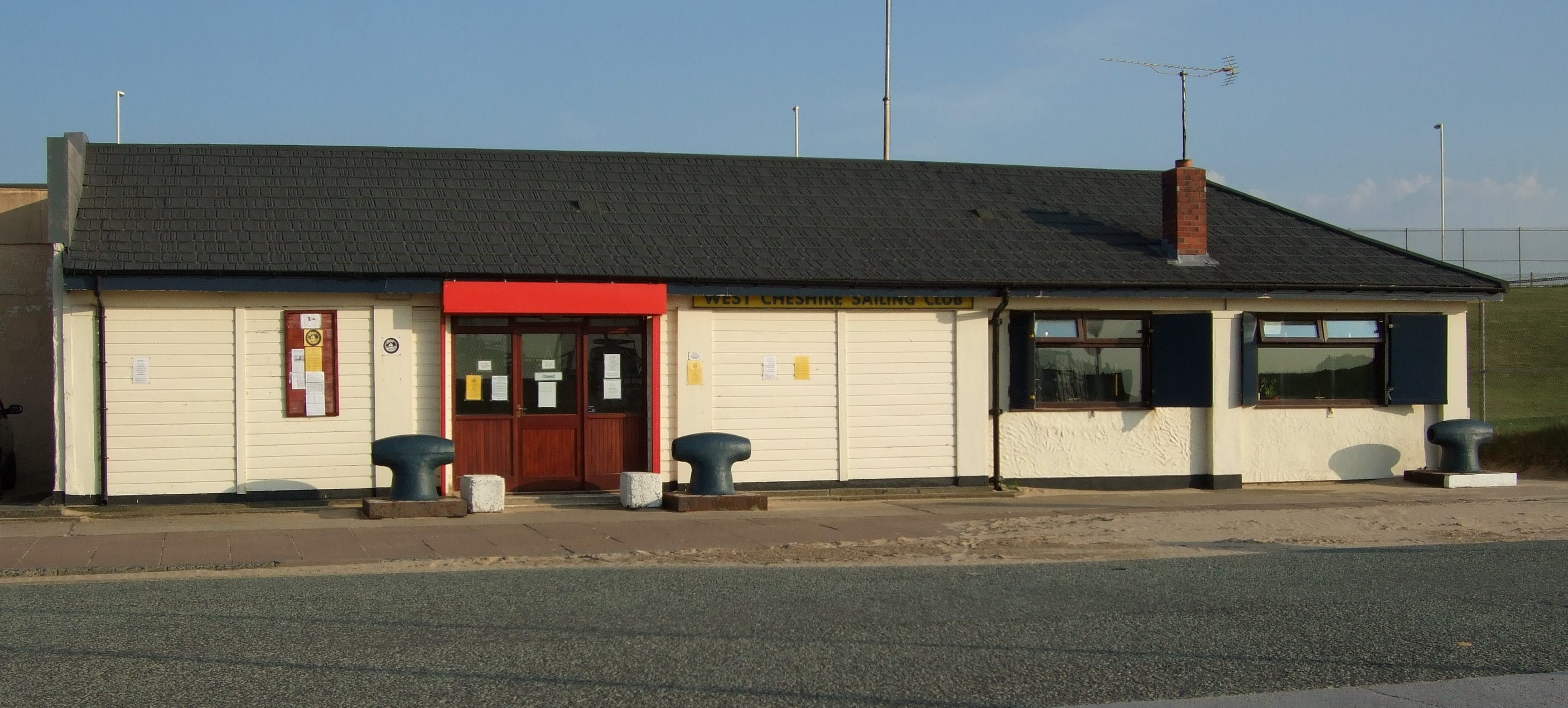 This is the clubhouse for West Cheshire Sailing Club, Wallasey, Wirral, UK